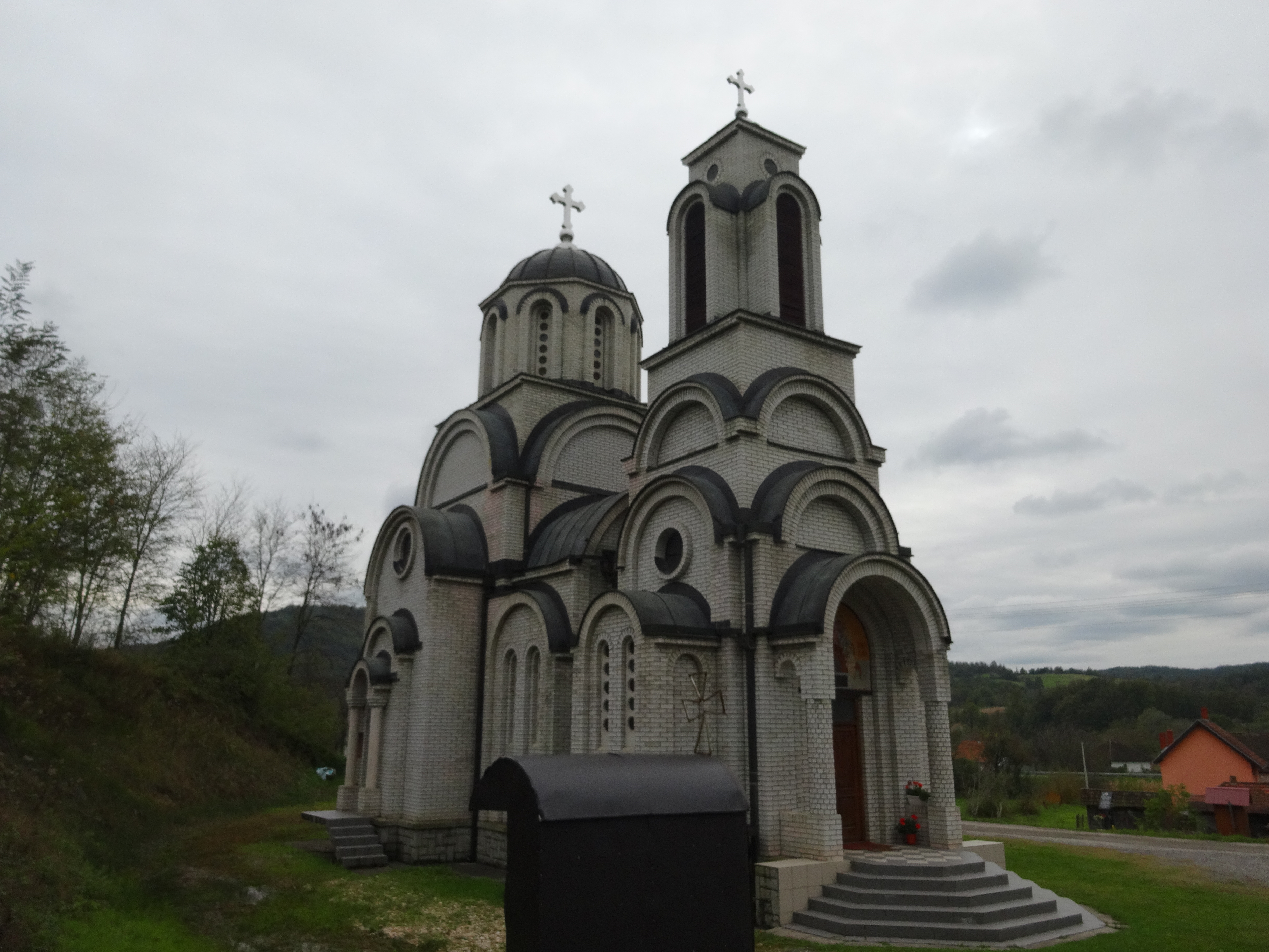 Štavica, Church Council of the holy apostles